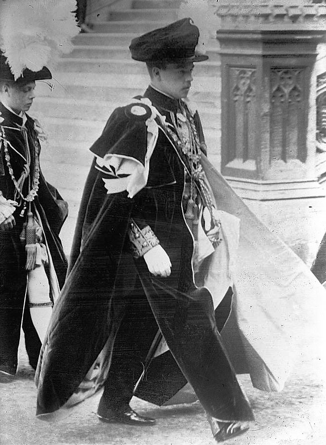 Picture of King Manuel II of Portugal. Taken at St. George's Chapel, Windsor Castle, England, when he was invested with the Order of the Garter.